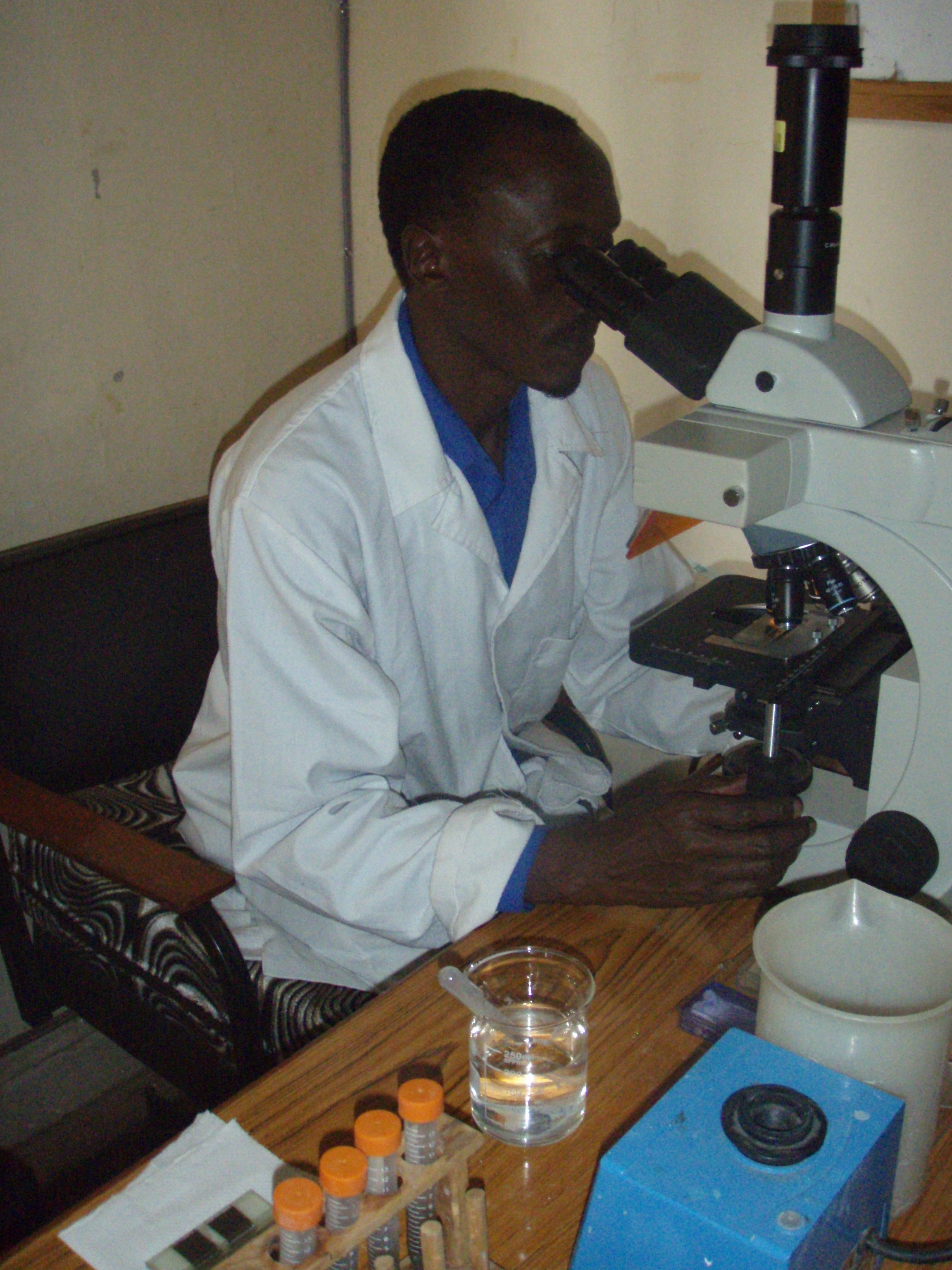 Photographer: Laura Kraft Date: Feb.2010 Kamau Mungai examines helminth eggs in faeces samples.